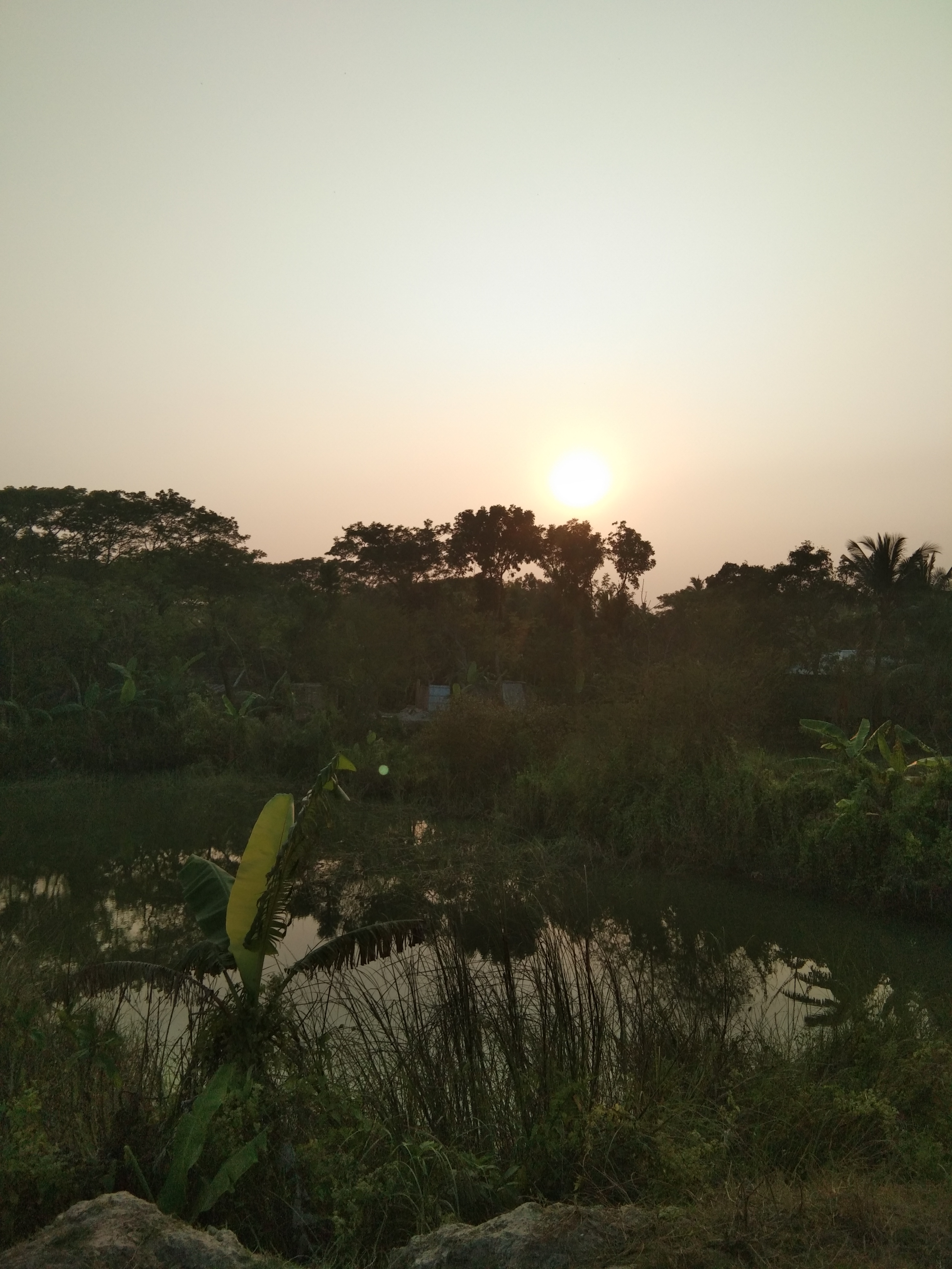 বাংলাদেশের সূর্যোদয়